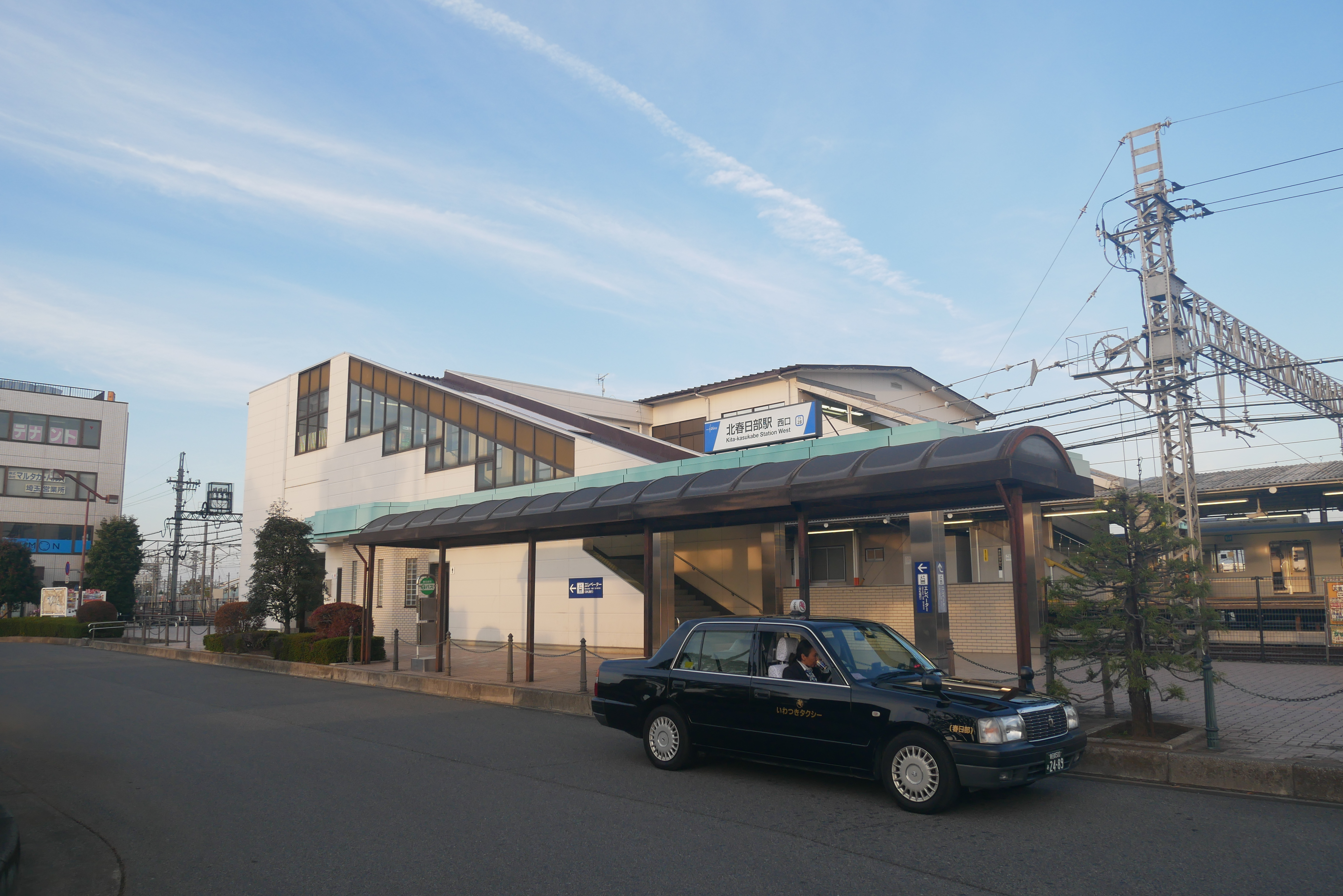 Kita-Kasukabe Station west exit (北春日部駅の西口)